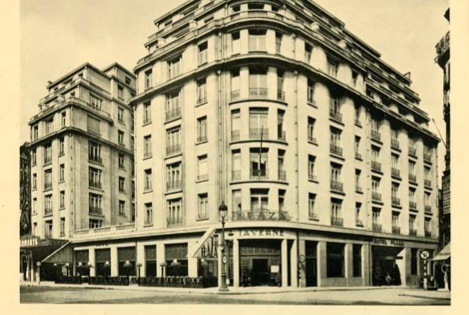 The main front of the Hotel Le Plaza, 1929